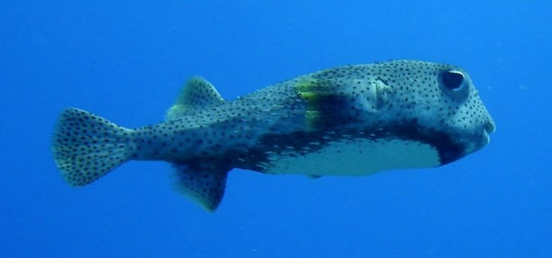 crop of file in file name